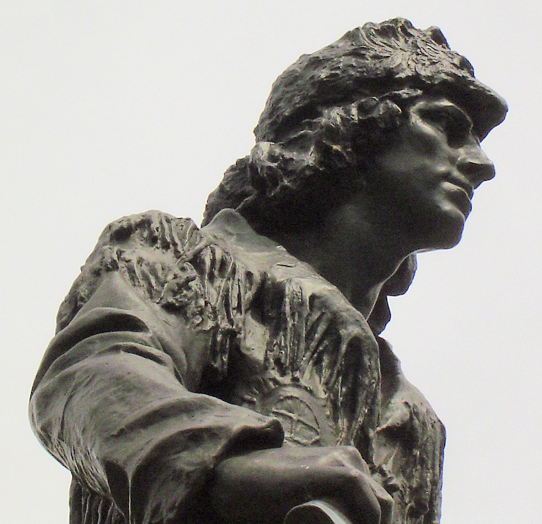 Head and torso detail of statue of Daniel Boone by Enid Yandell, on Eastern Parkway in Louisville.